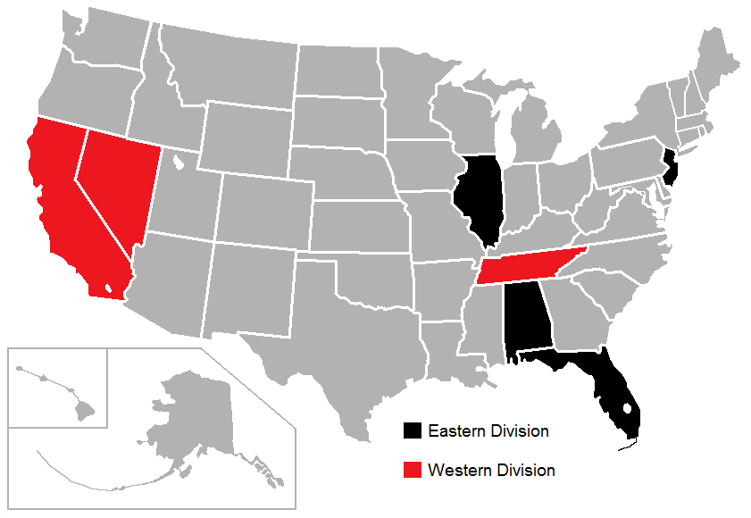 map of states with XFL teams (and their conferences Red = Western Division Black = Eastern Division